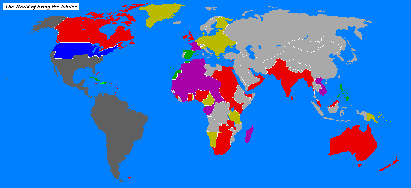 A map showing the alternate world of the novel Bring the Jubilee in 1952. Map Key: Confederate States of America United States of America Republic of Haiti German Union British Empire Spanish Empire French Empire